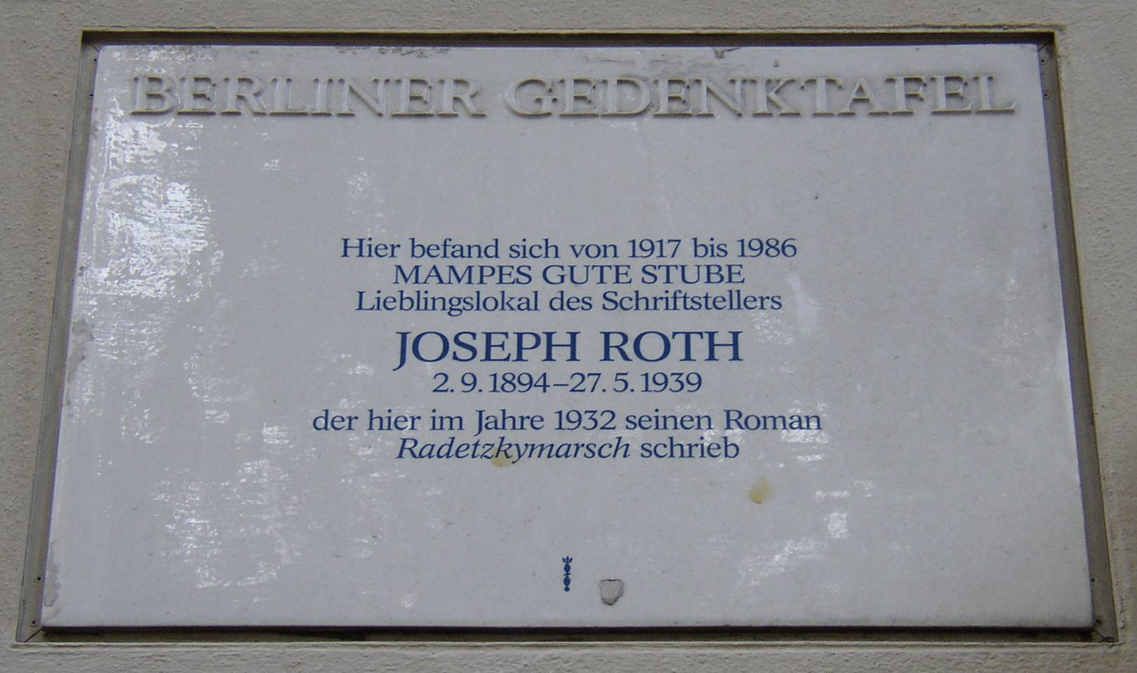 Berlin memorial plaque for Joseph Roth in Berlin-Charlottenburg, Germany